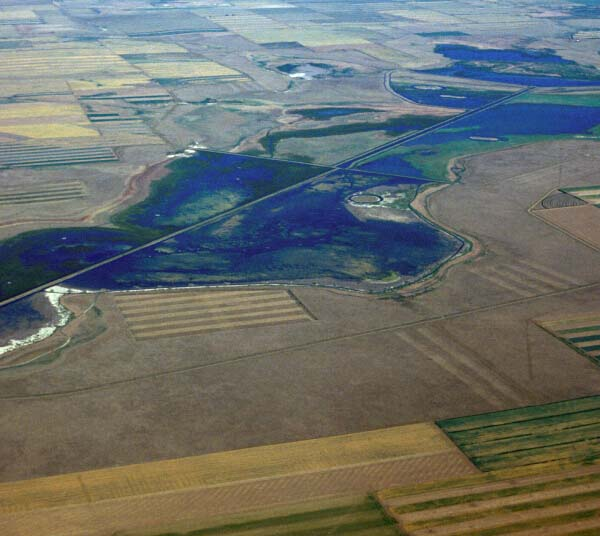 The lands of Benton Lake National Wildlife Refuge were established to protect and provide habitat for migratory birds that cross State lines and international borders and are by law a Federal trust responsibility. The refuge is of great value to waterfowl and shorebirds, as well as other migrating water-dependent bird species, because of the diversity of wetland and upland habitats that provide for the diverse life cycle needs of these species. Credit: USFWS